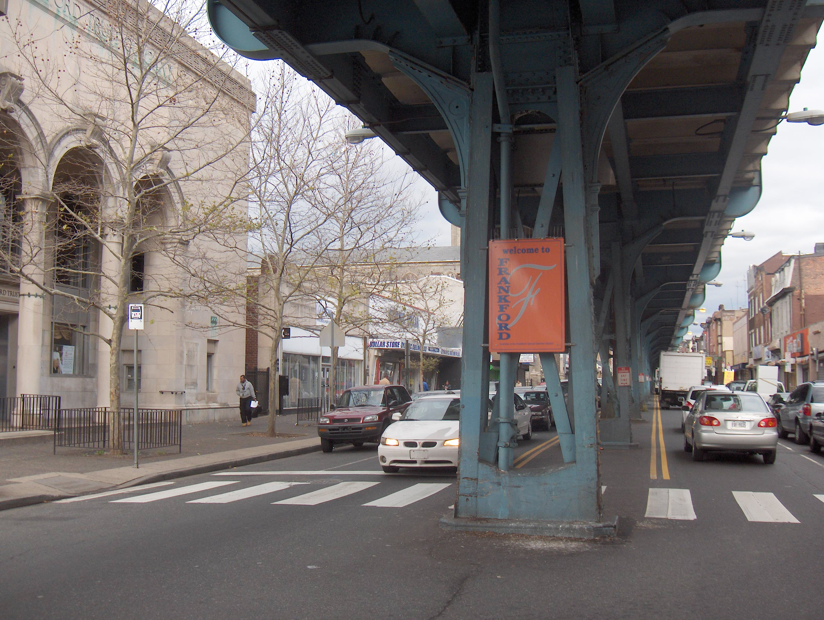 Philadelphia, PA 19124, 4400 block Frankford Avenue, looking north, sign posed by the Frankford Special Services District of Philadelphia on a Market-Frankford subway/elevated line support. Former Frankford Trust Company building on the left.